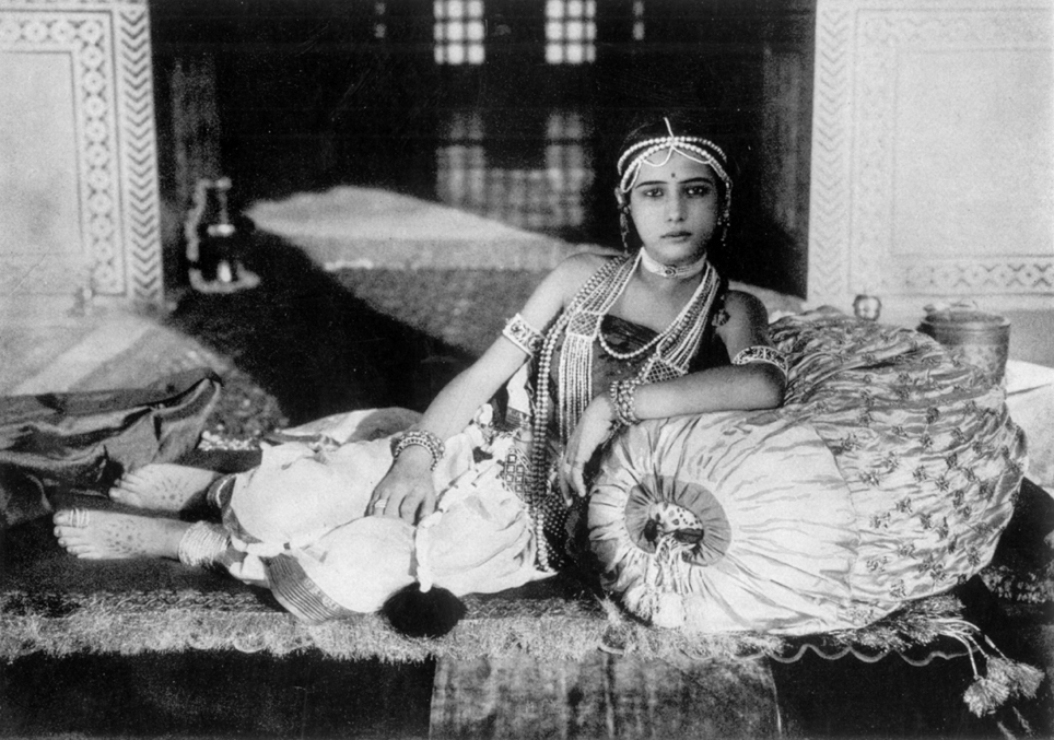 Seeta Devi as Gopa in film, Prem Sanyas (The Light of Asia) 1925, directed by Franz Osten.